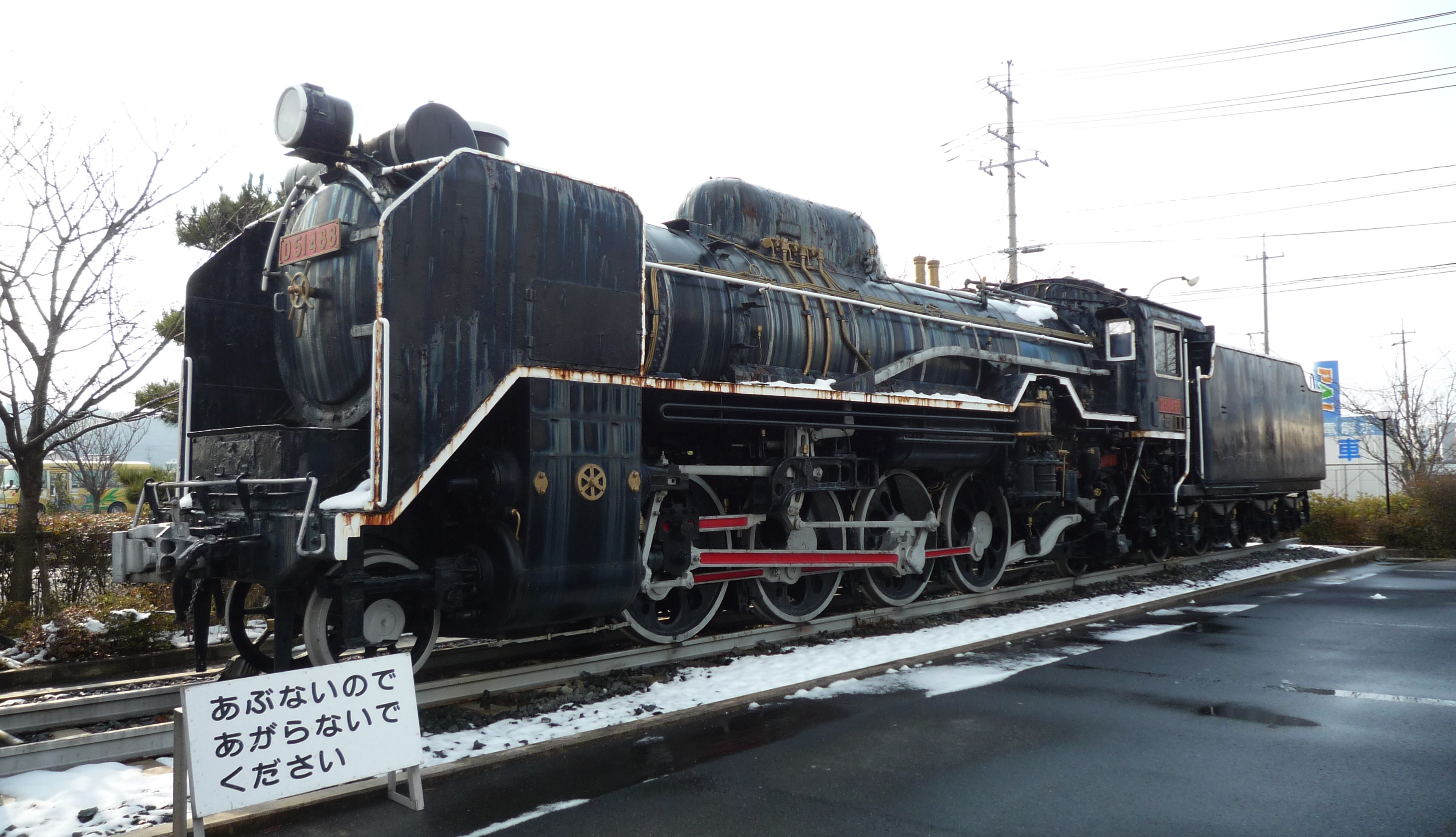 D51-488, is stored static condition at Wakō Museum in Yasugi City, Shimane Prefecture, Japan.